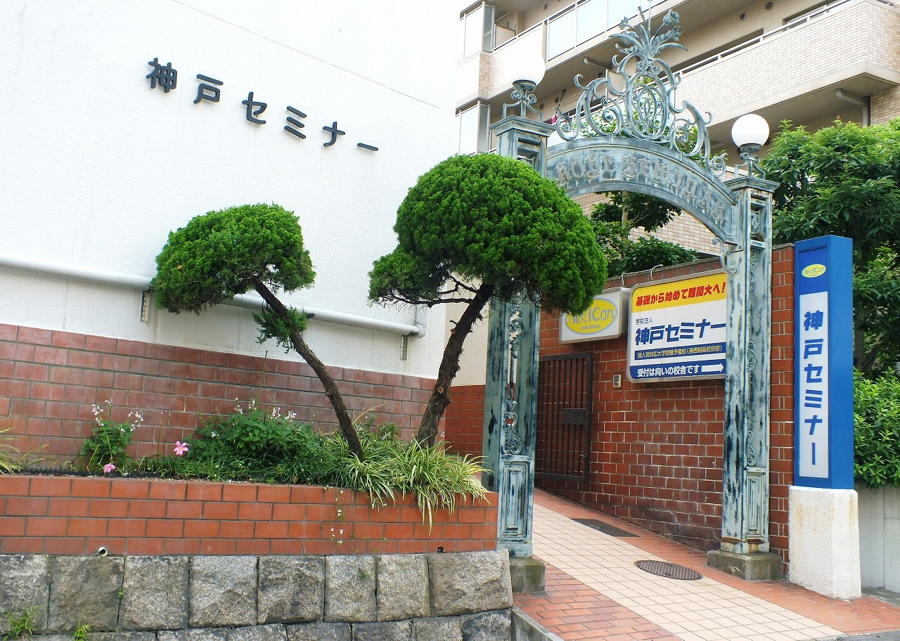 KOBE SEMINAR 学校法人 村上学園 予備校神戸セミナー